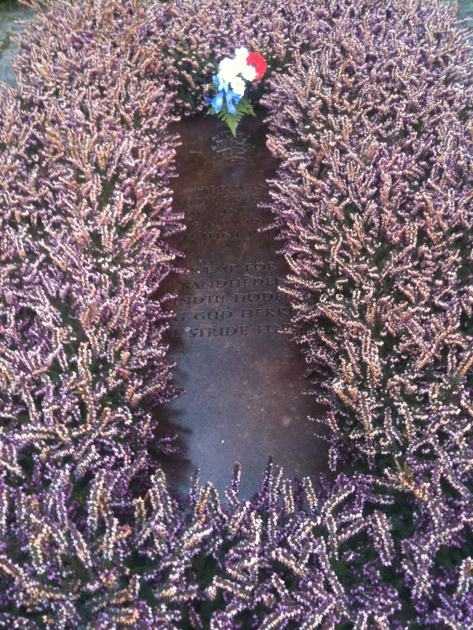 Tomb of Herman Møller Boye in Mindelunden i Ryparken